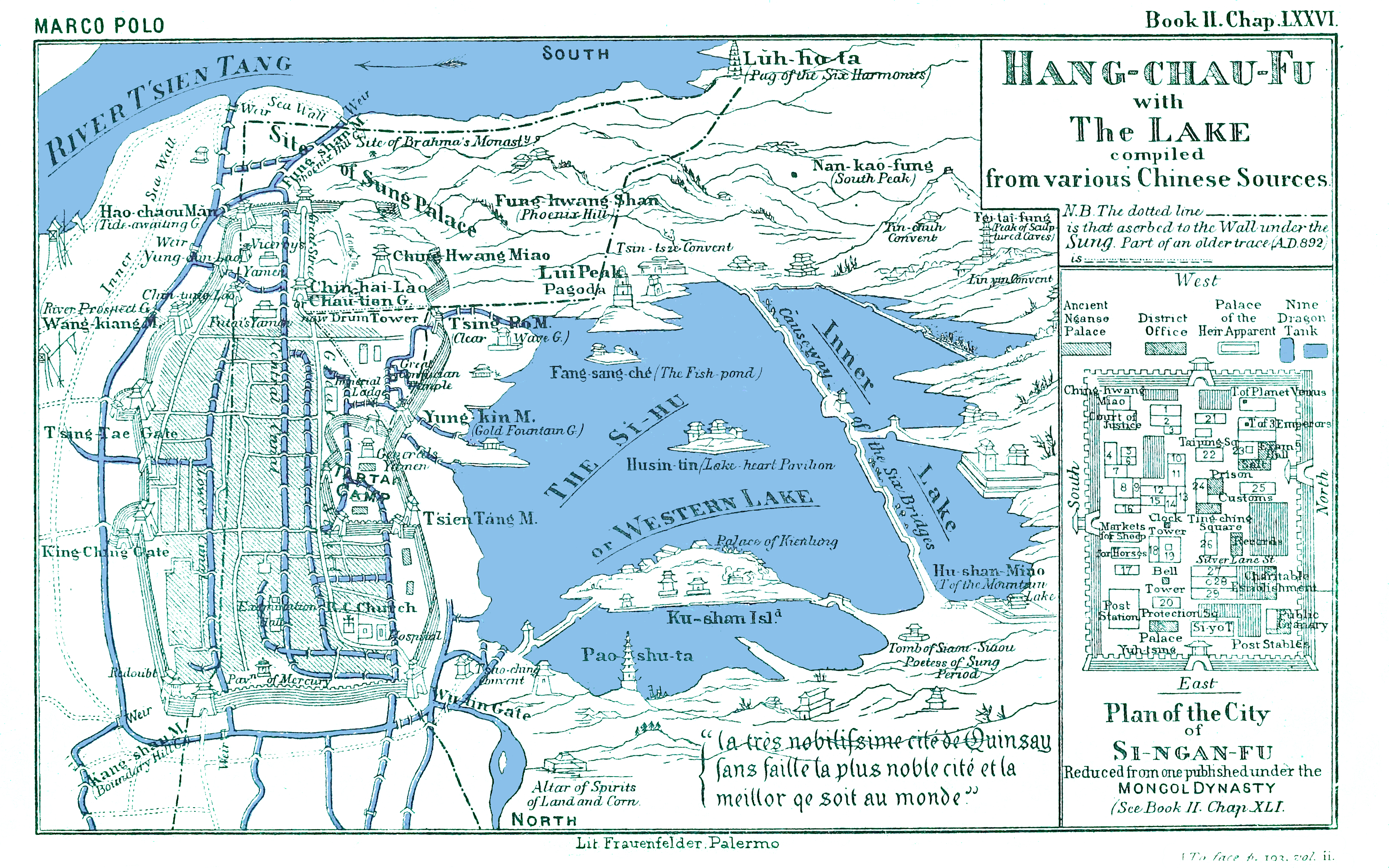 Hangzhou, 13th century